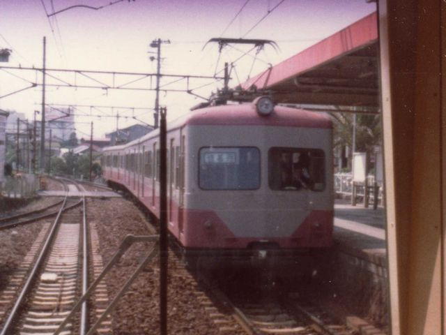 Izuhakone type 1000 (from Seibu Railway) at Mishima-tamachi